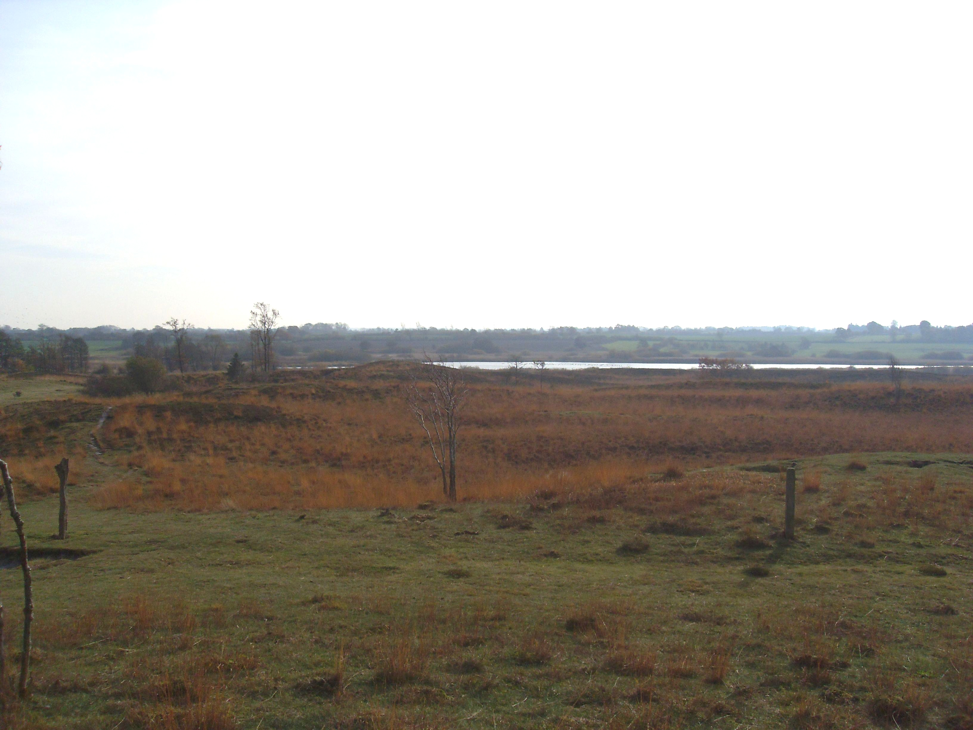 Nature Reserve Düne am Treßsee, view from thew dune to the Treßsee (lake)